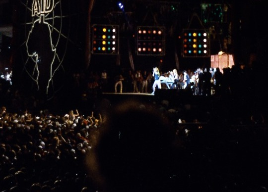 Live Aid concert after dark at JFK Stadium, Philadelphia, PA